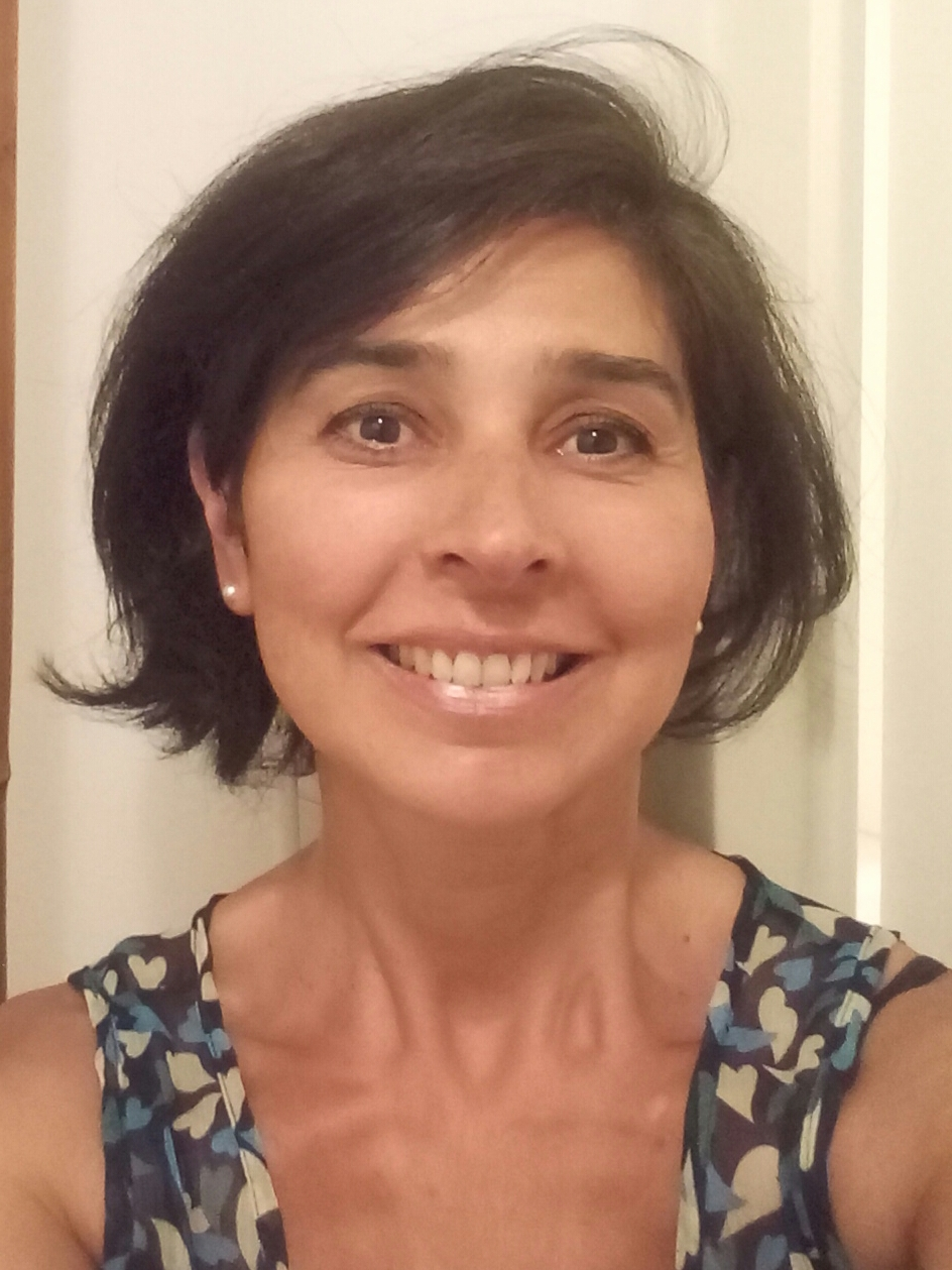 Dra. en Arquología Silvana Espinosa